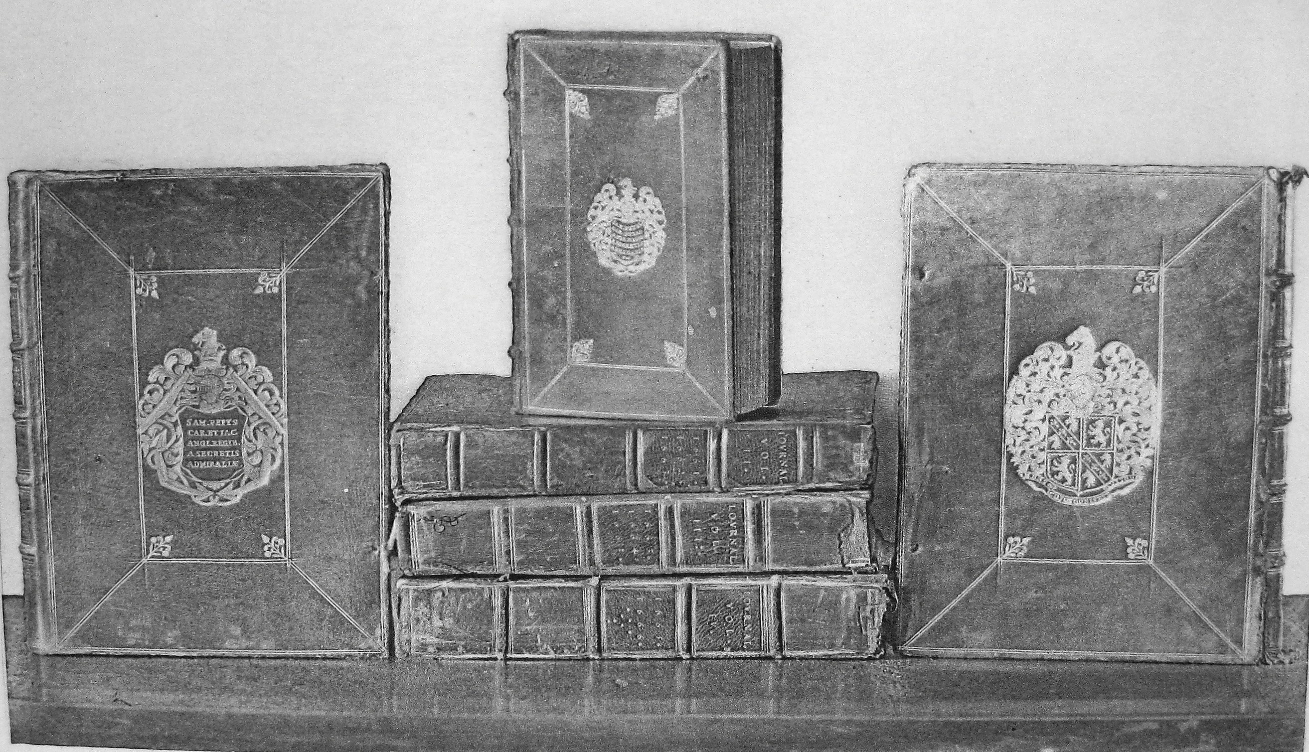 Image is from H.B. Wheatley, ed, The Diary of Samuel Pepys: Pepysiana (London, 1899). Book editor died in 1917. Samuel Pepys died in 1703.